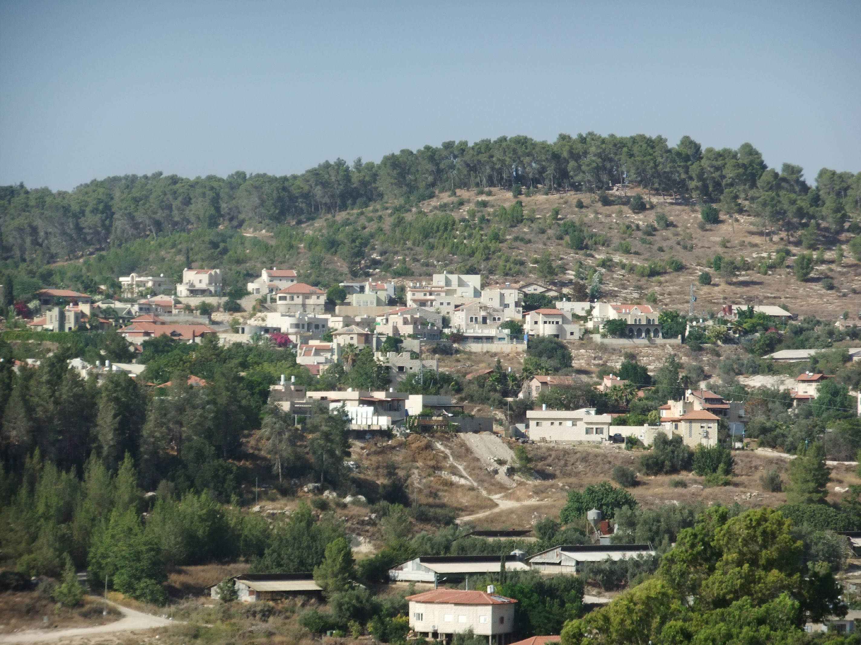 Eshtaol from Eretz Hachayim cemetary